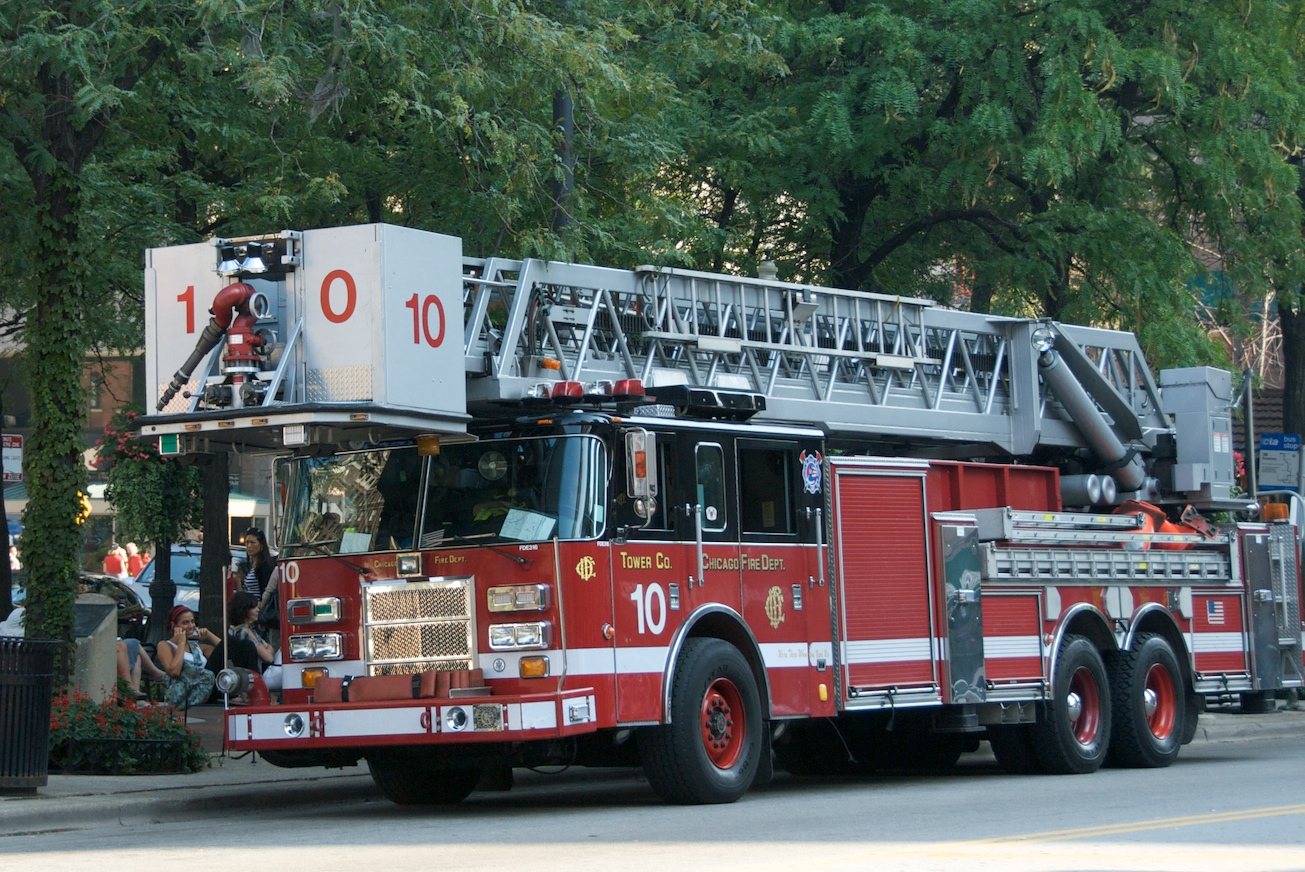 Chicago Fire Department